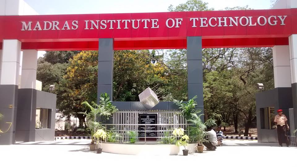 MIT's newly build entrance.